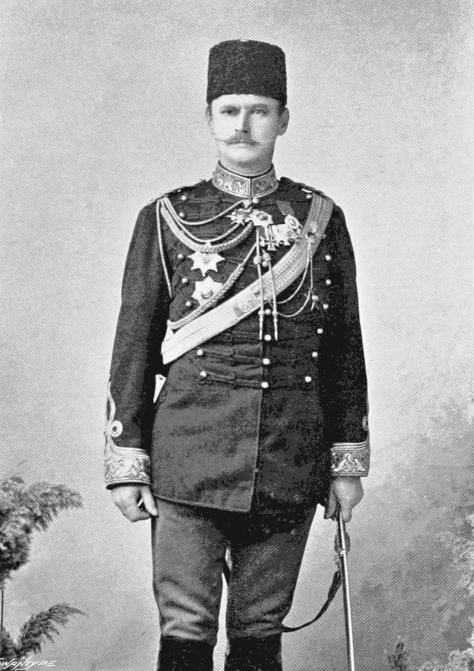 Viktor Karl Ludwig von Grumbkow